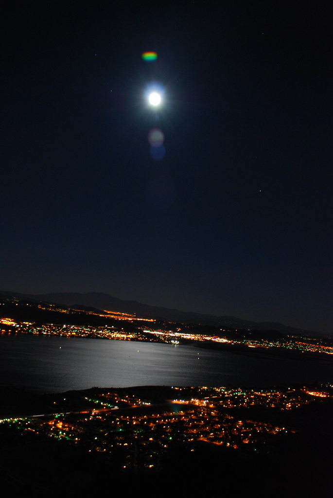 Moonlight over Lake Elsinore — from the Santa Ana Mountains, Southern California. View via Highway 74 (Ortega Highway).